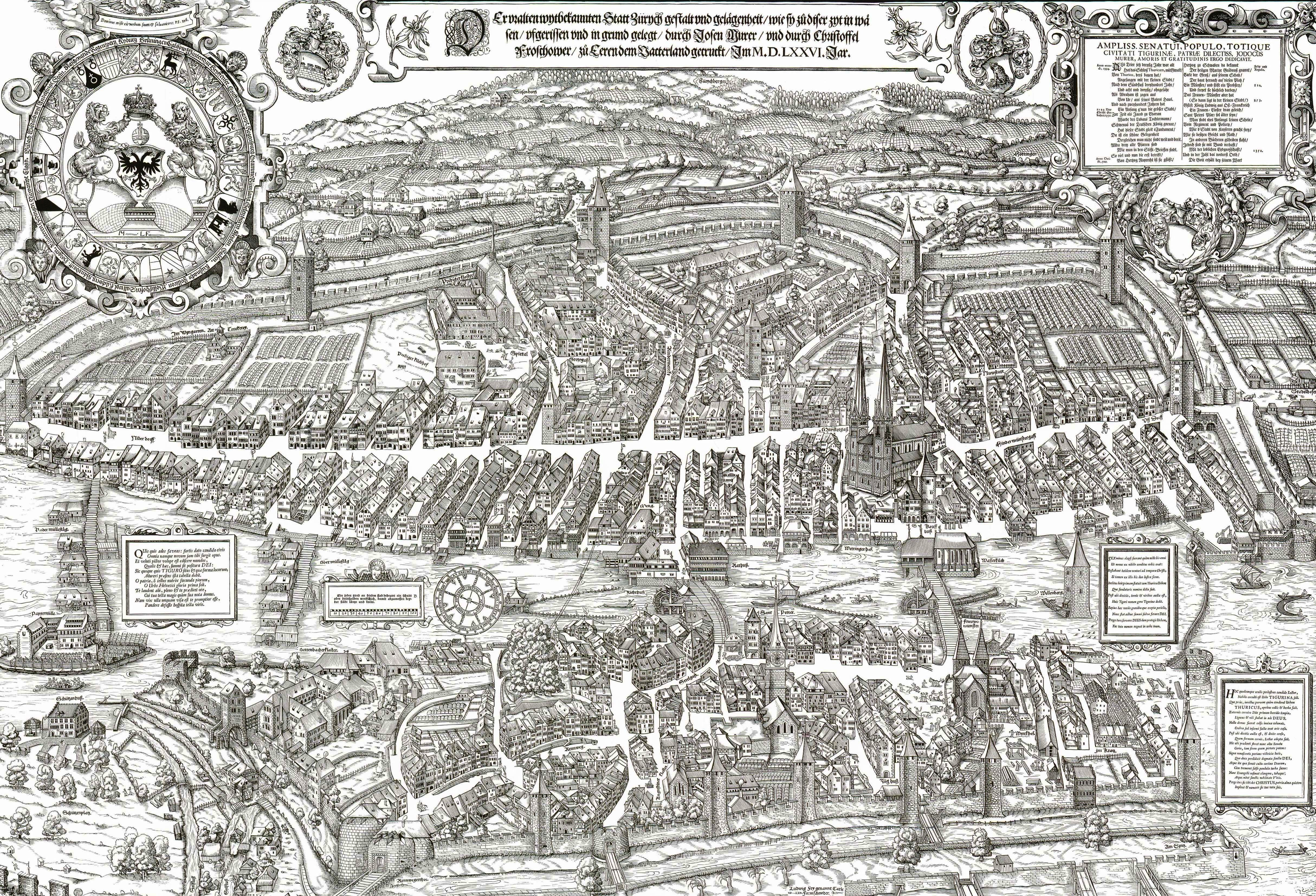 View of the city of Zürich on a xylography by Josua Murer, 1576. The original headline can be roughly translated into "The ancient widely known city Zürich's design and positioning, as its essense/character is projected and build at this time by Josen Murer, and printed by Christoffel Froschauer in 1576 in honour of the fatherland."